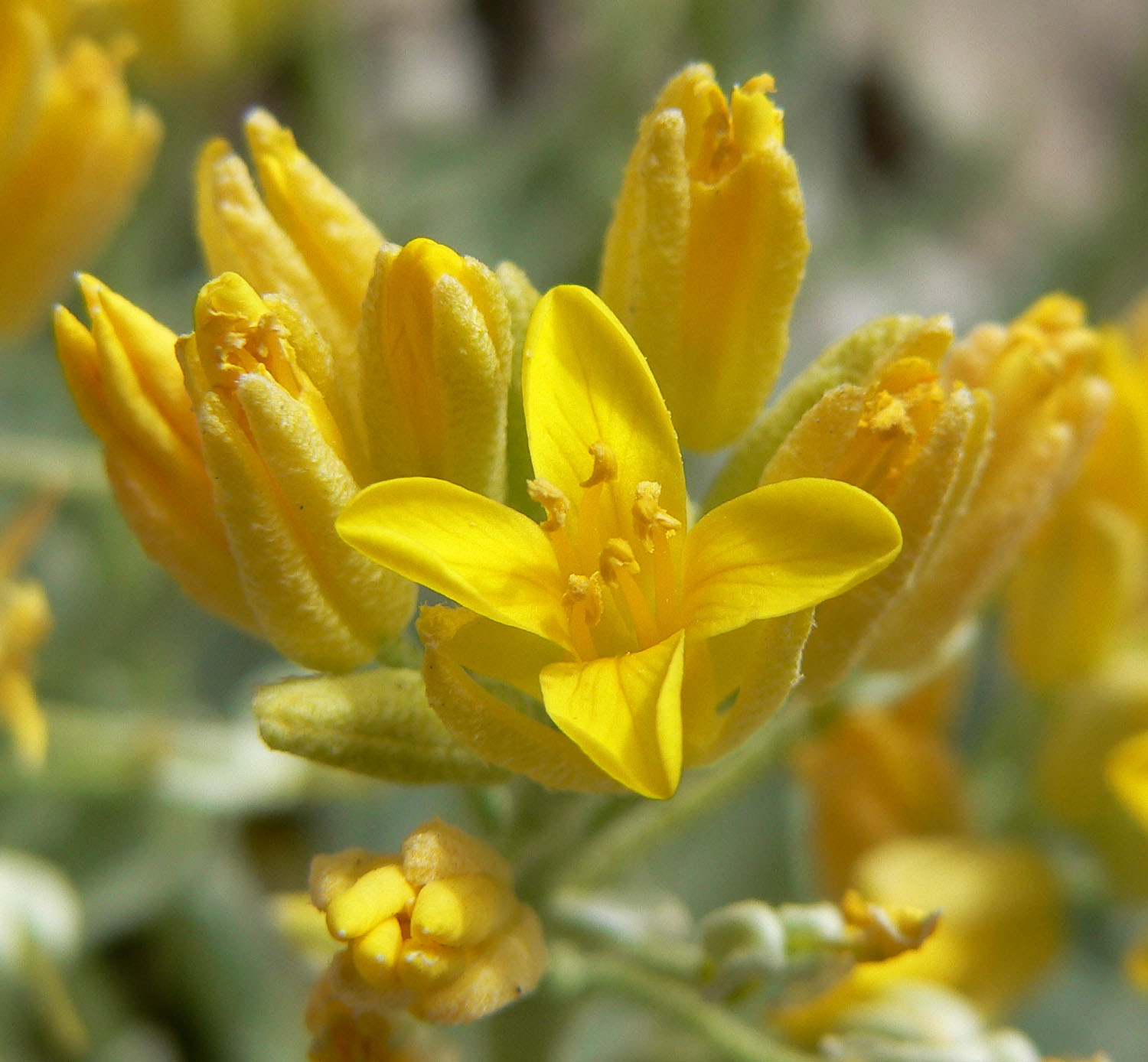 Physaria chambersii on a road cut in upper Kyle Canyon, Spring Mountains, southern Nevada (elev. about 2200 m)